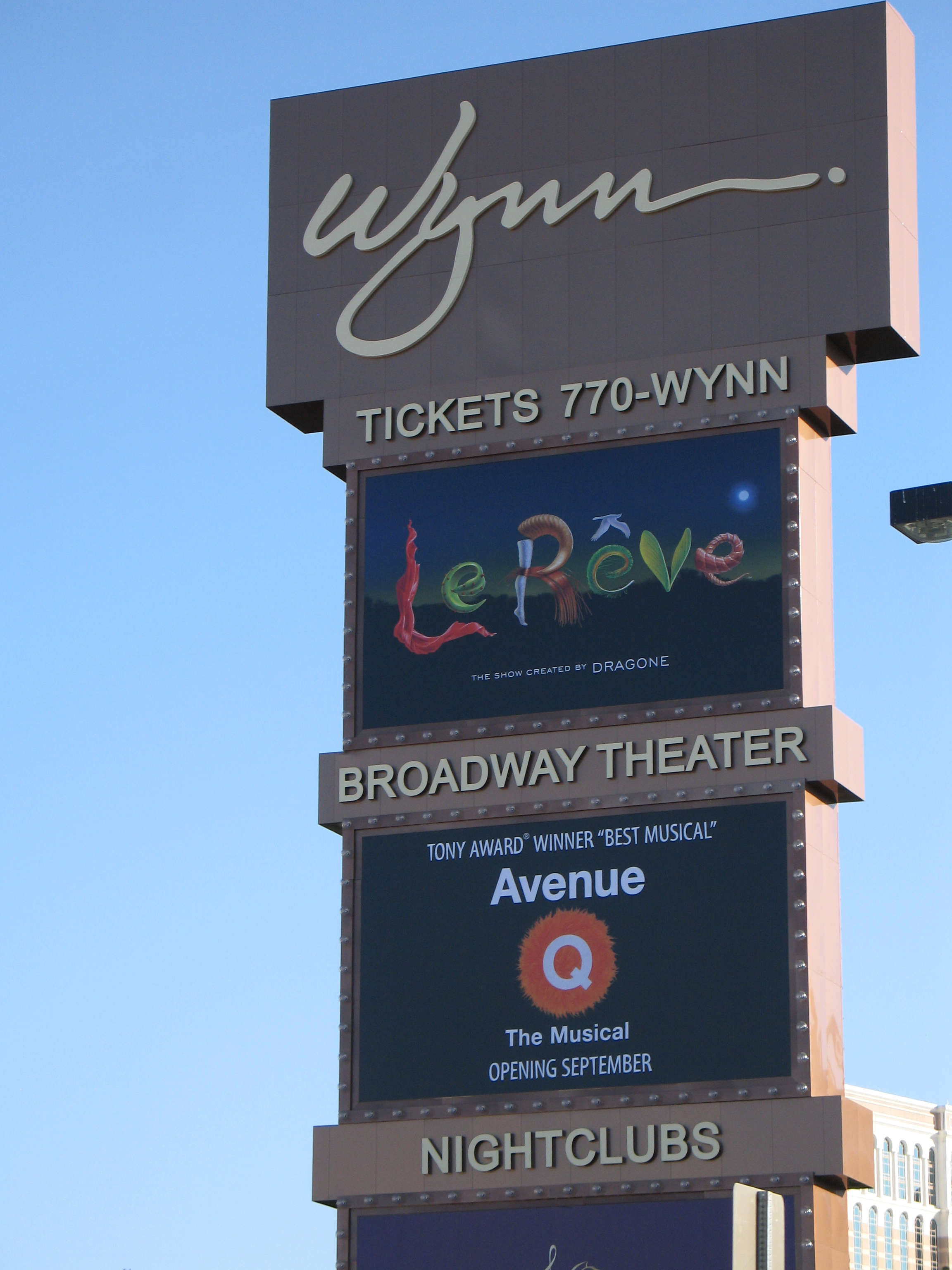 The other sign in front of the Wynn. Shot by Wikinews contributor David Vasquez in April 2005, using a Canon PowerShot G6.